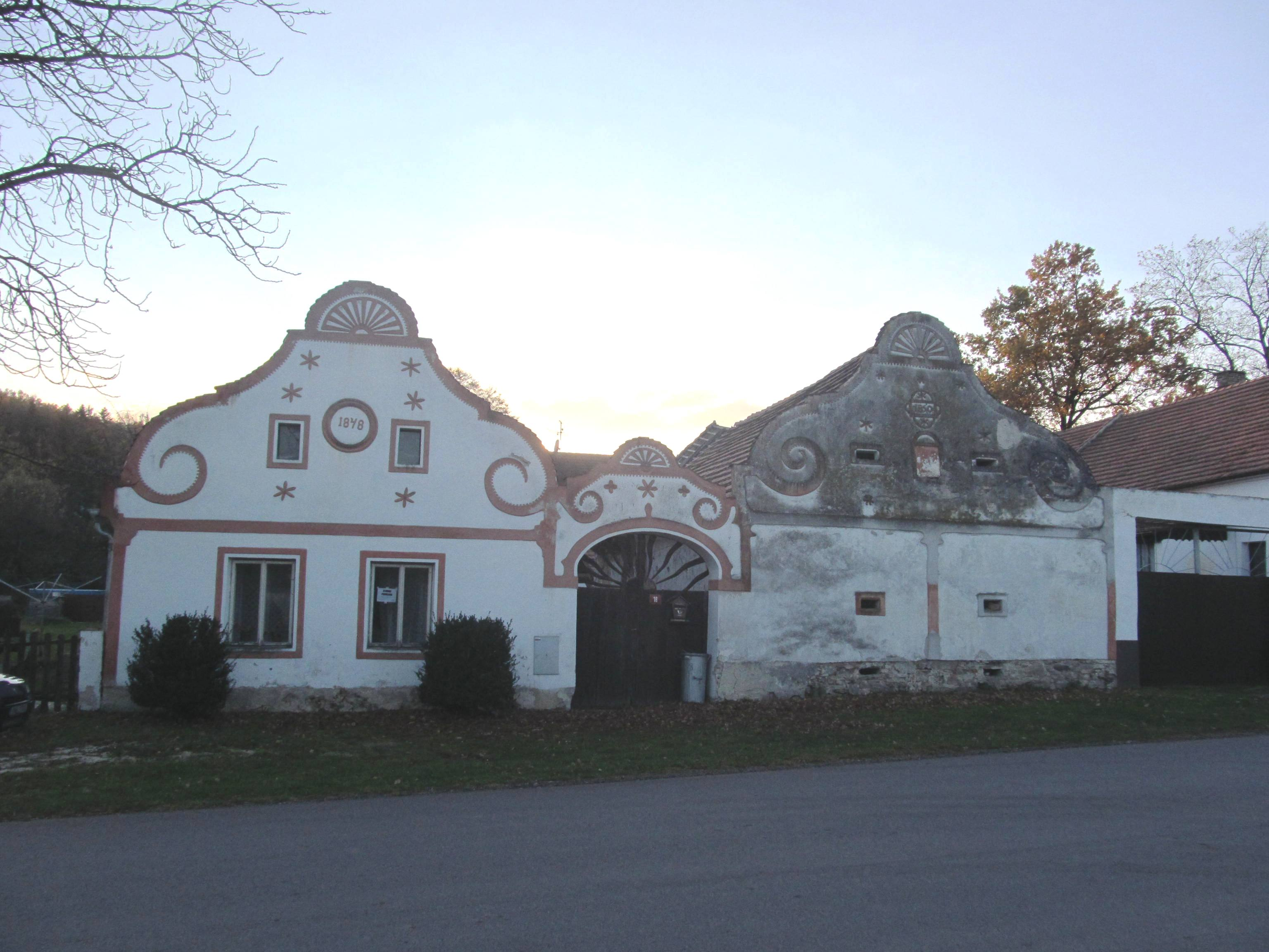 House No 18 in Čakovec